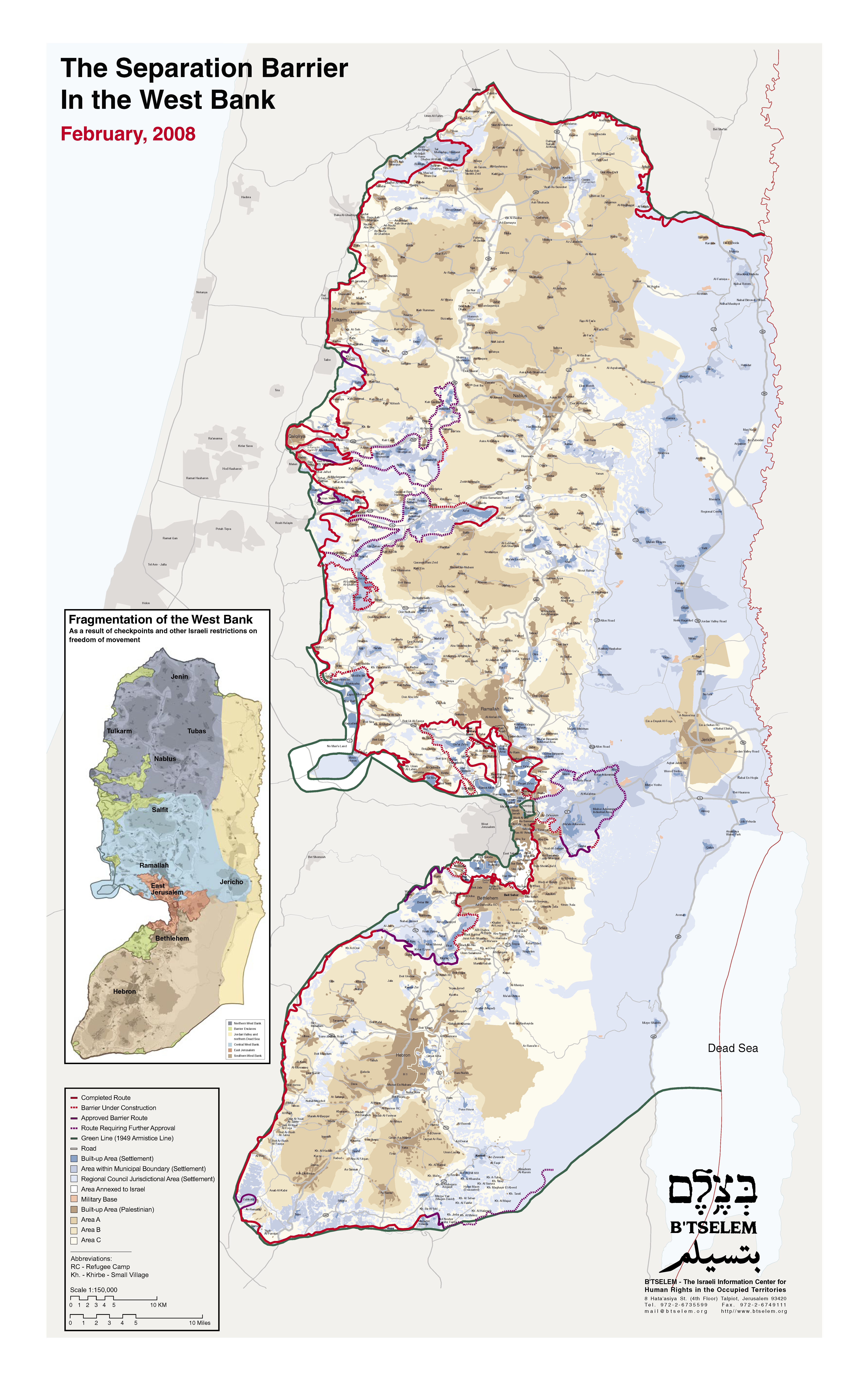 Map of the West Bank barrier - February 2008